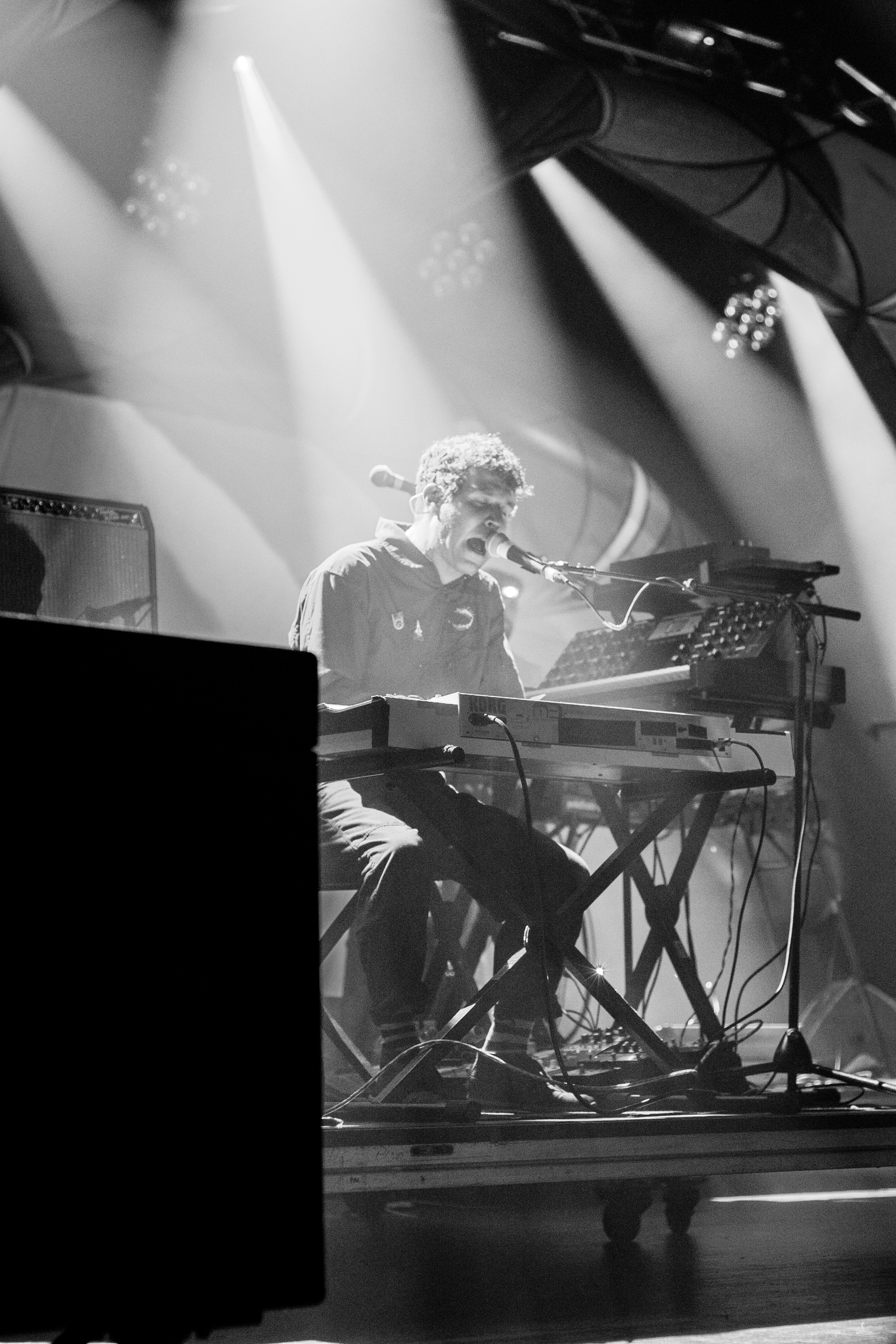 Avey Tare of Animal Collective performing at Mountain Oasis Electronic Music Summit in October 2013.